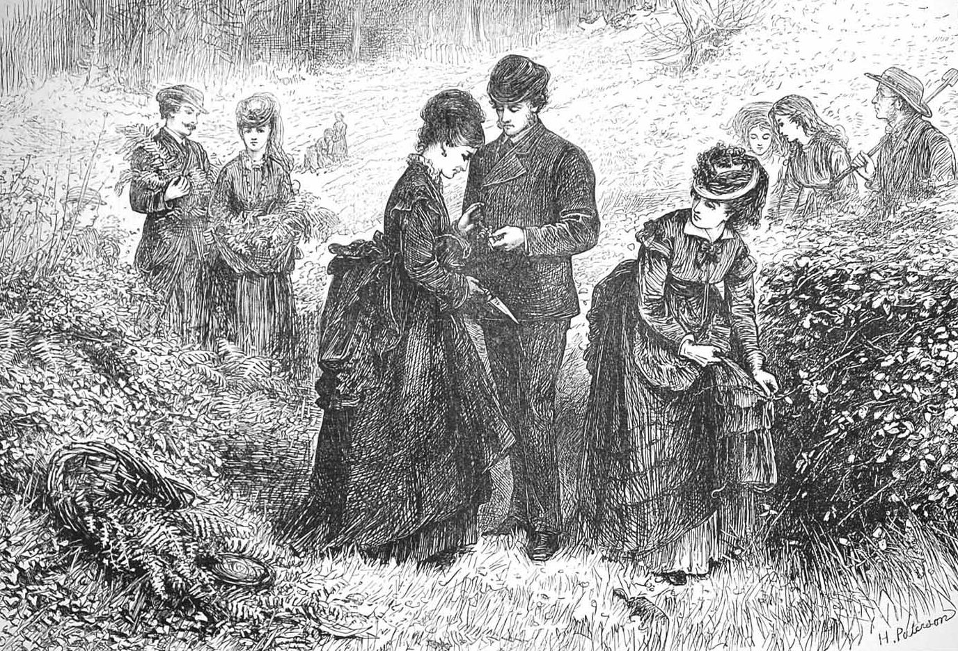 Photograph of a page marked "The Illustrated London News, July 1, 1871.-699" to the right of the image. "Gathering Ferns" (title printed below image). Signed H. Paterson (maiden name of Helen Paterson Allingham).